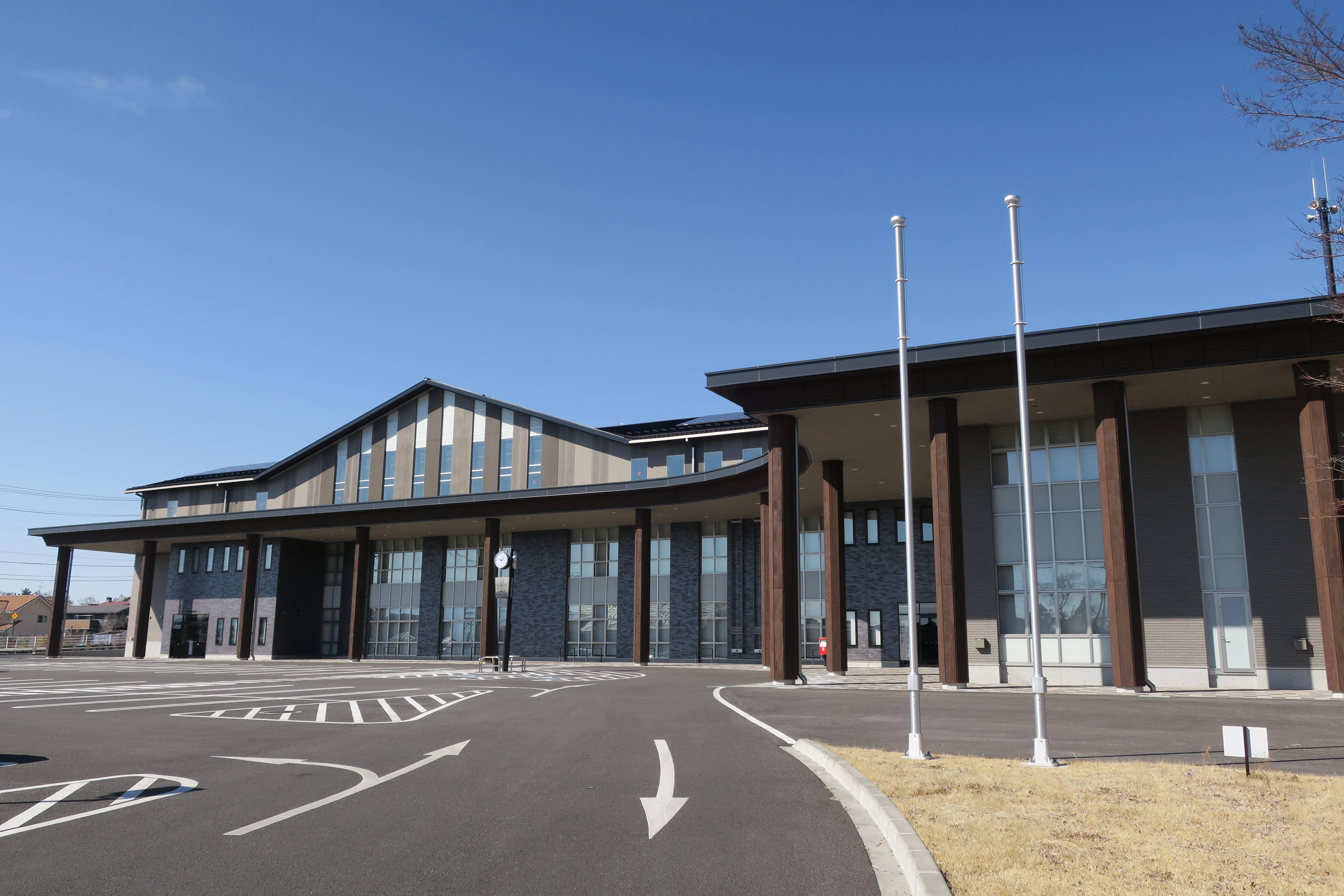 Miyota town office.